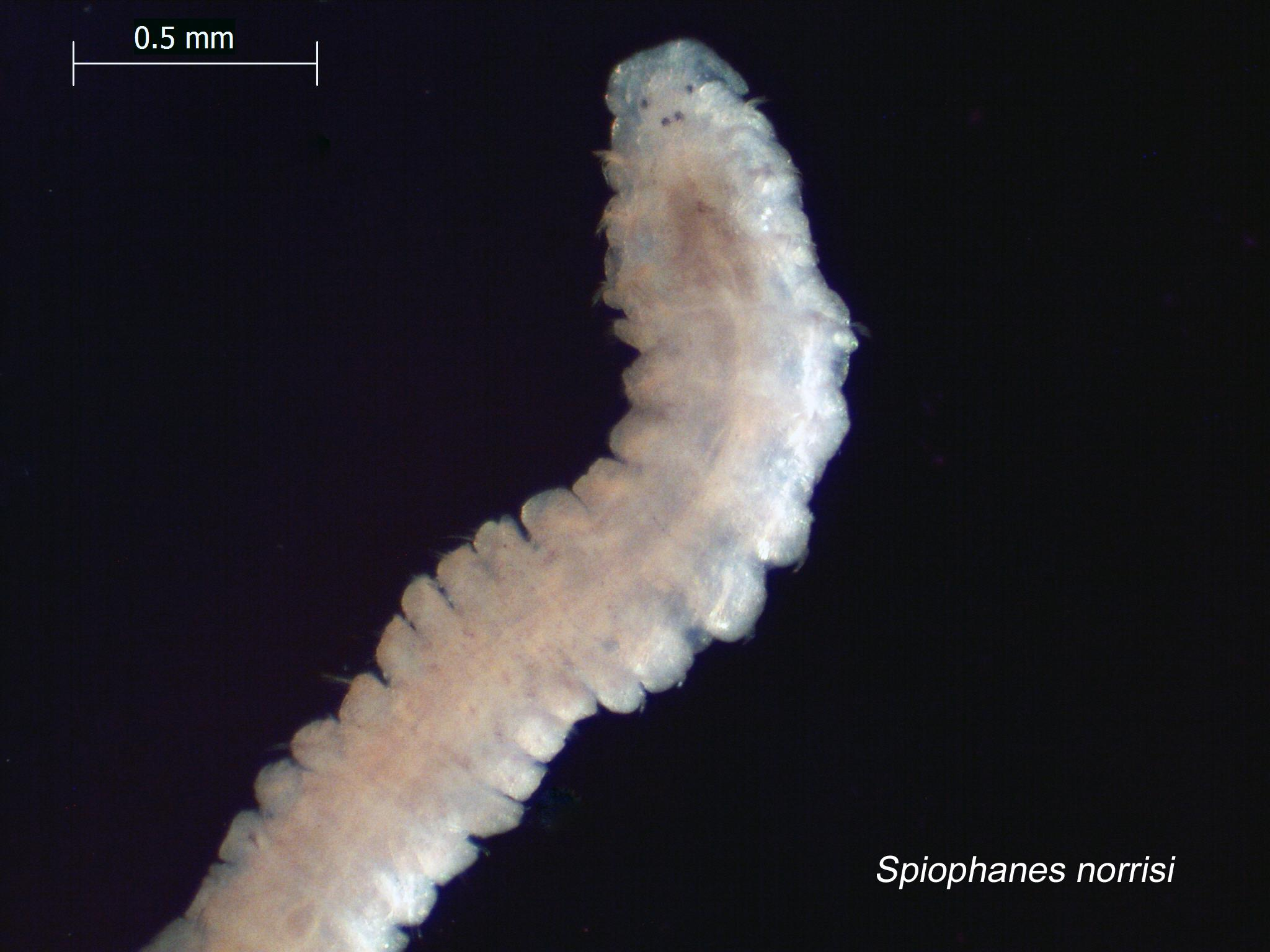 Collected from Puget Sound sediments and photographed by the Washington State Department of Ecology’s Marine Sediment Monitoring Team. For more information about this team’s work visit